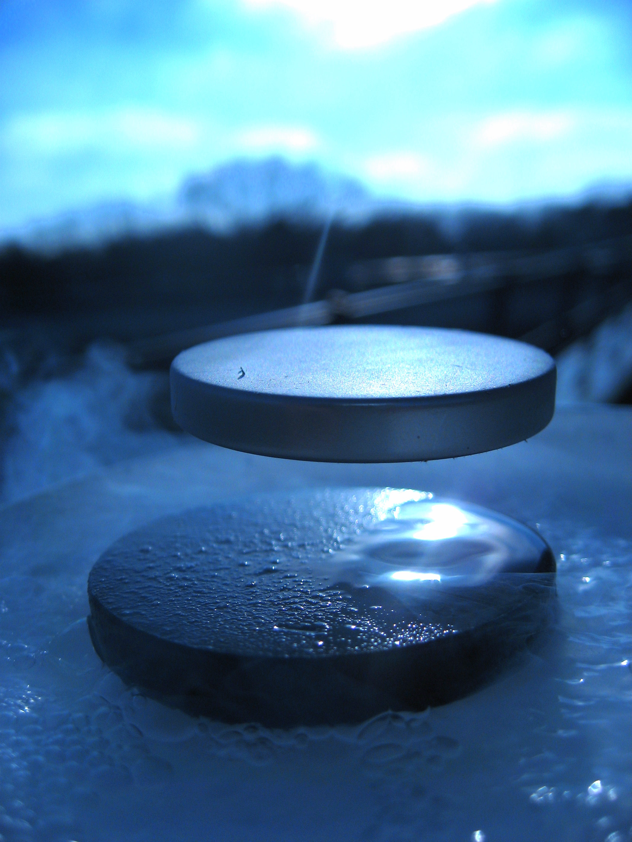 levitation of a magnet on top of a superconductor of cuprate type YBa2Cu3O7 cooled at -196°C.